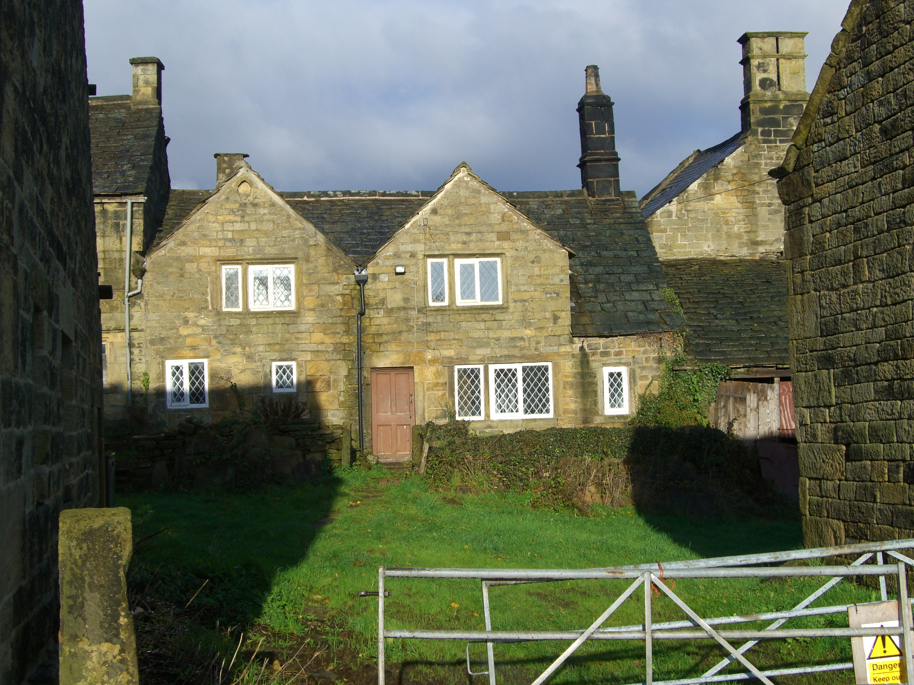 Old Hall Farmhouse in the hamlet of Brightholmlee in Sheffield, England. It is a grade II listed building dating from the 17th century.